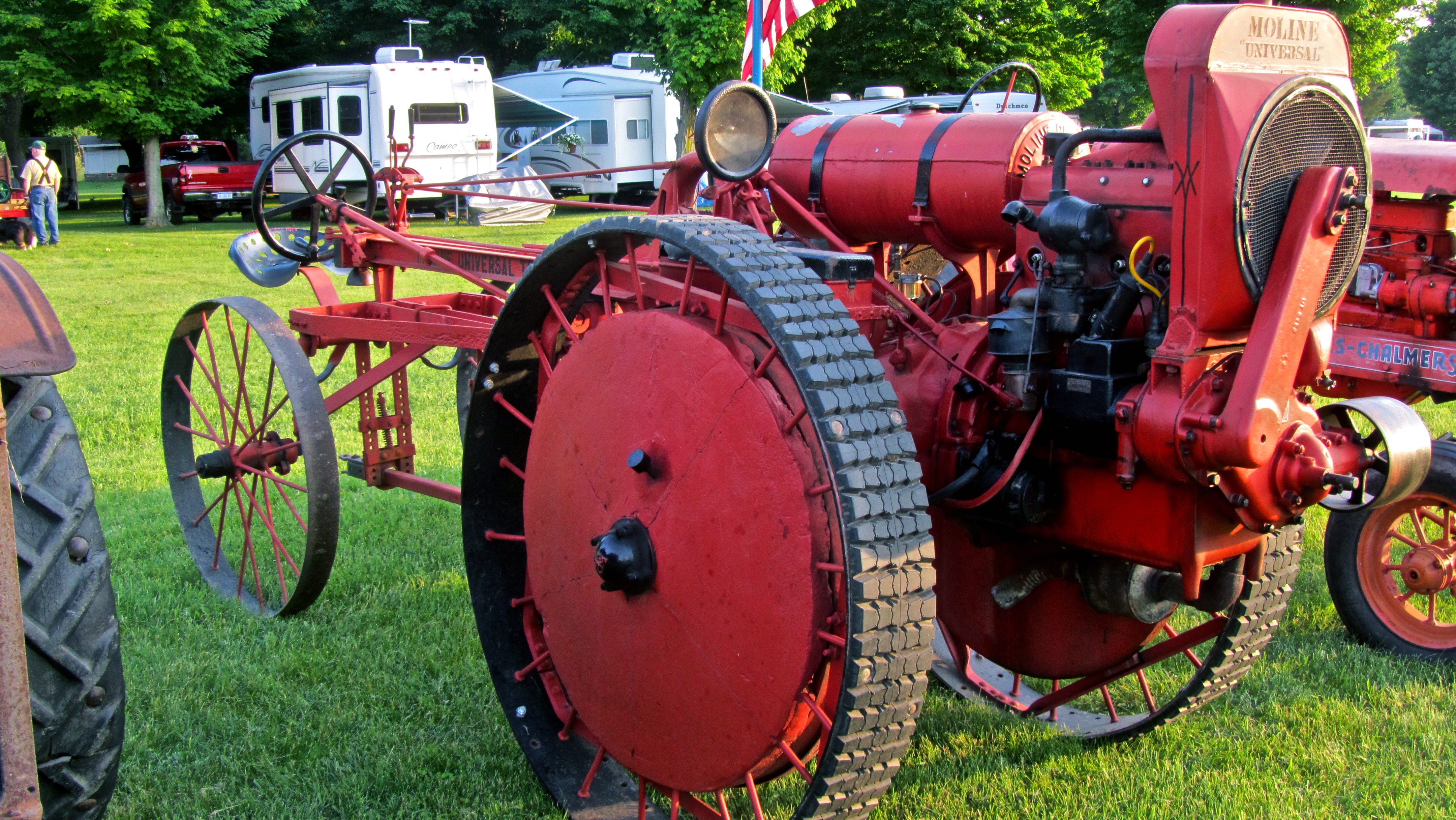 Moline Universal tractor (model D?), built by the Moline Plow Co., Moline, Illinois, USA, ca. 1918; Antique Gas Engine and Tractor Show 2010, Hudson Mills Metropark, USA.